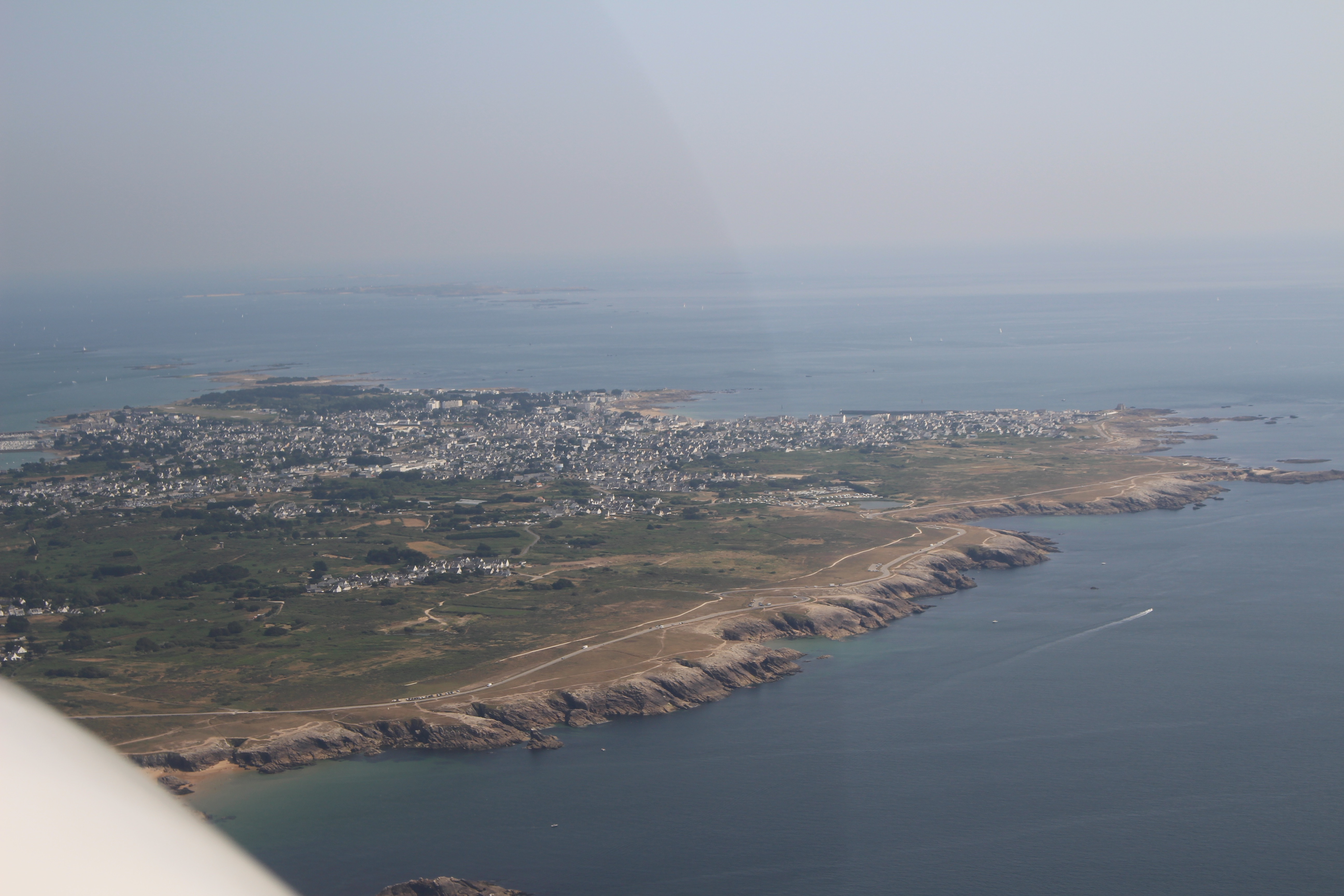 Quiberon côte sauvage